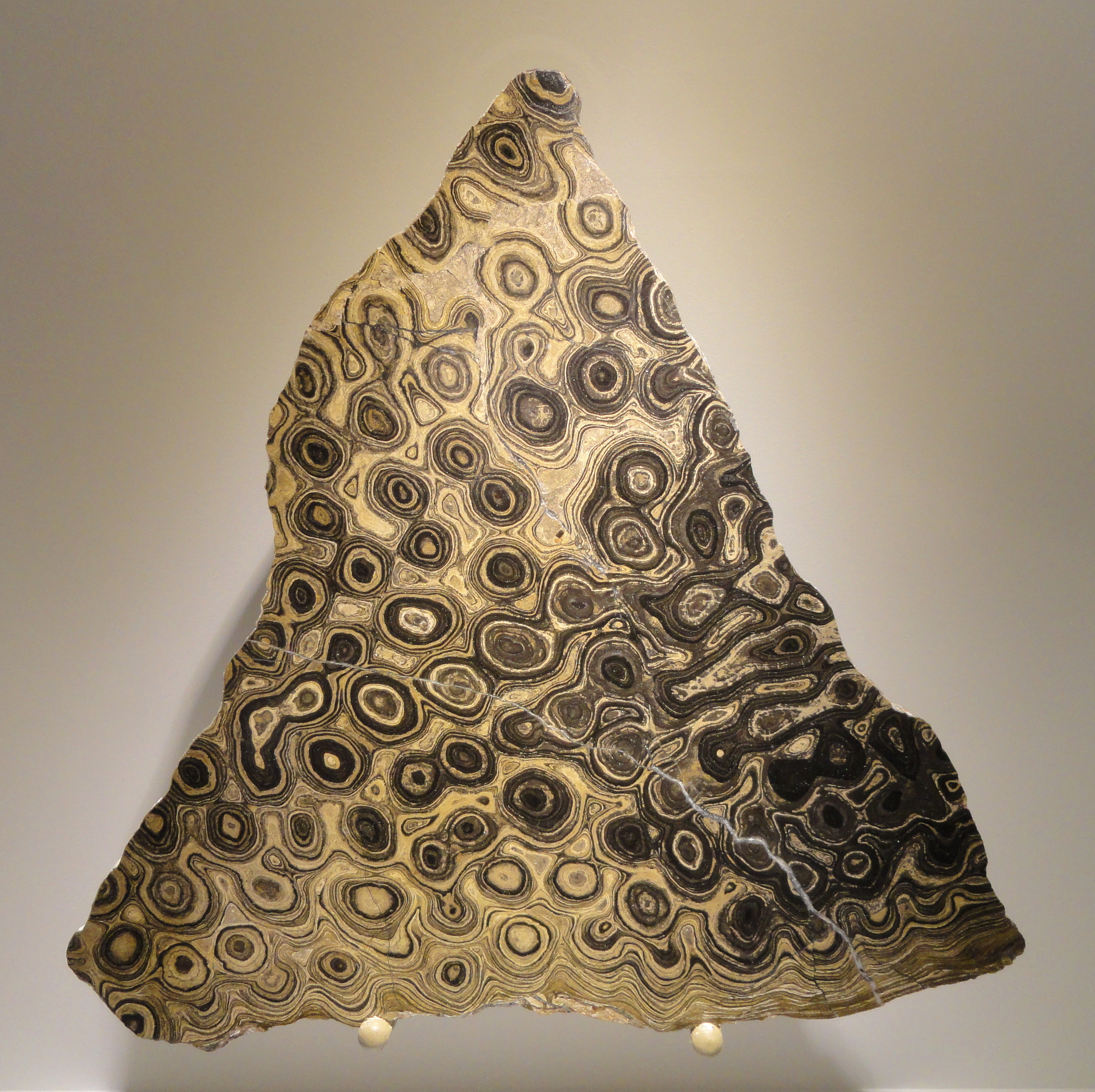 Exhibit in the Houston Museum of Natural Science, Houston, Texas, USA.